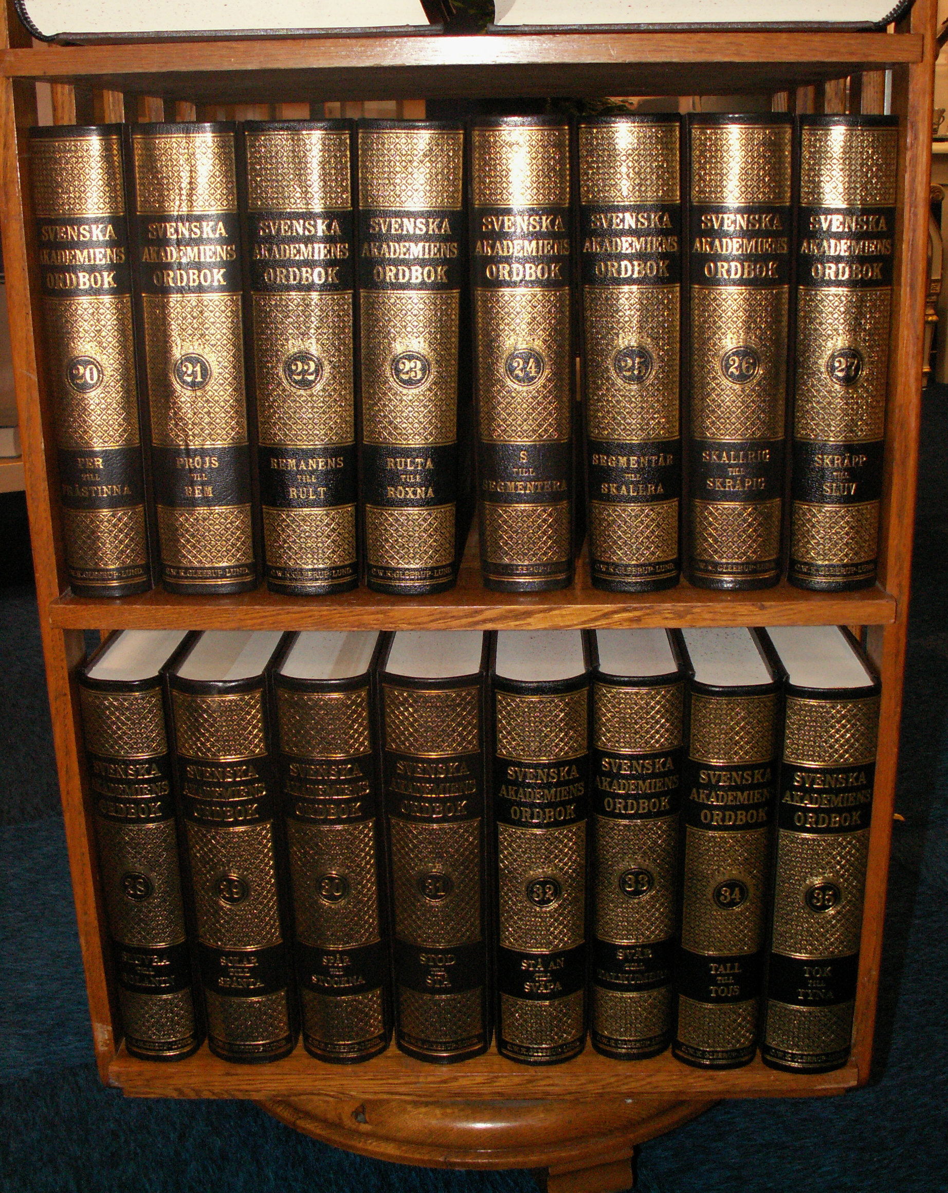 Svenska Akademiens Ordbok, vol. 20-35